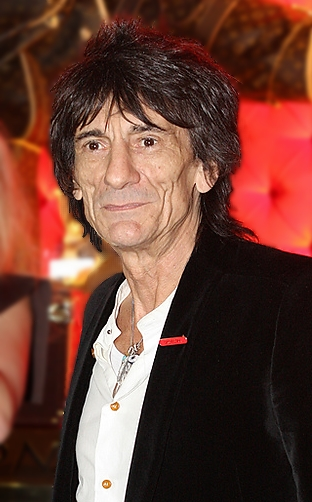 Guitarist Ron Wood at the VIP opening party of a Louis Vuitton store in Sydney, Australia on December 2, 2011.